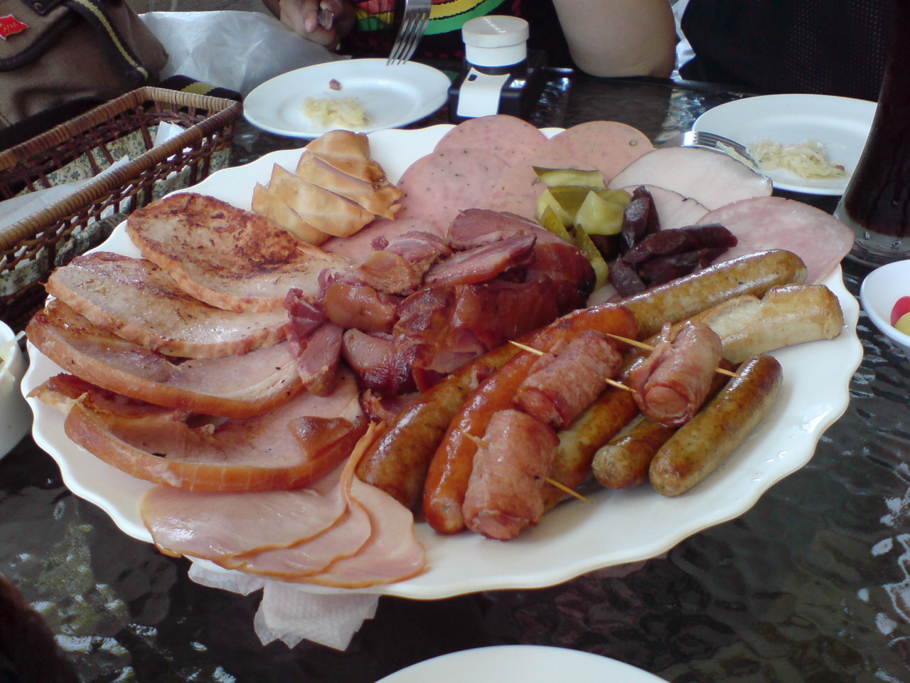 German hams, sausages and other cured meats, served with pickled gherkins and sauerkraut.